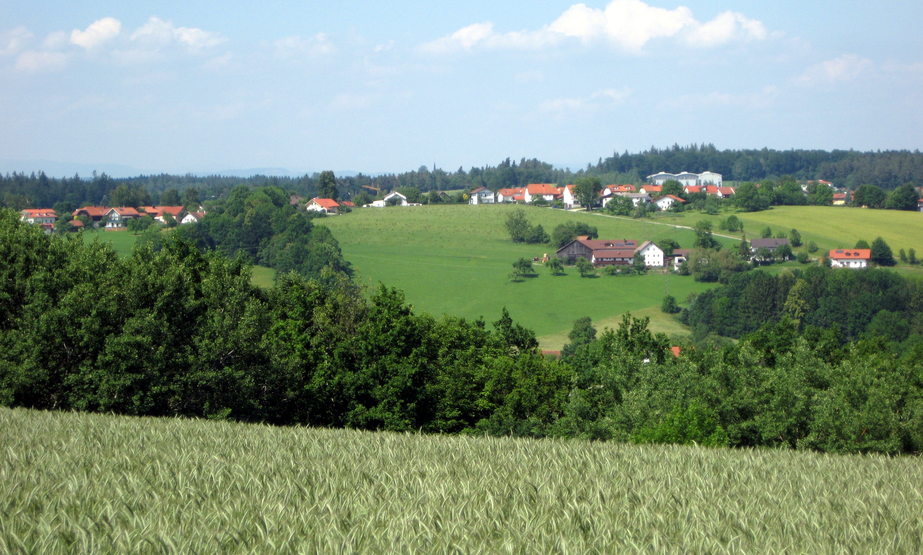 District Grubweg (Sieglberg) of Passau